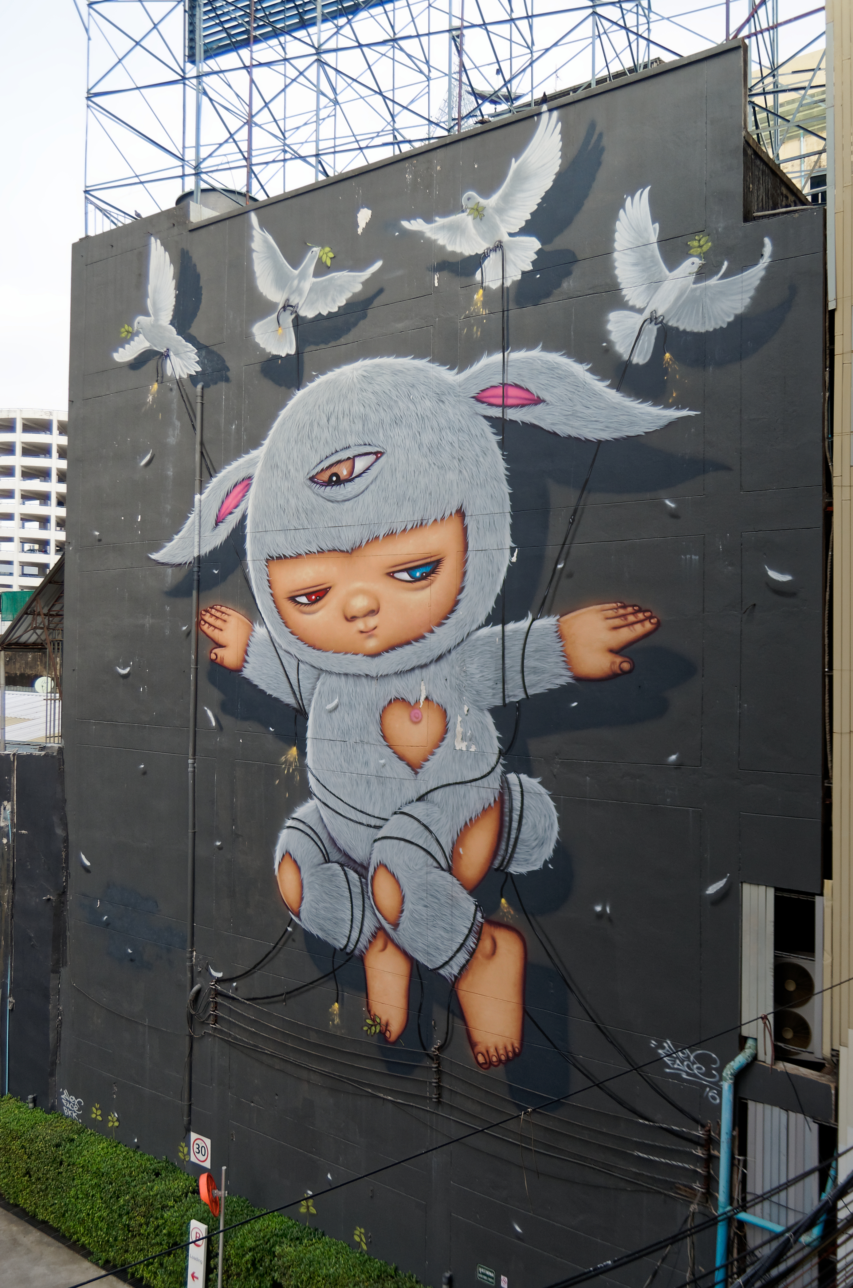 Mural in Bangkok